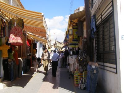 A market street in Nicosia, Cyprus - northern (Turkish) part